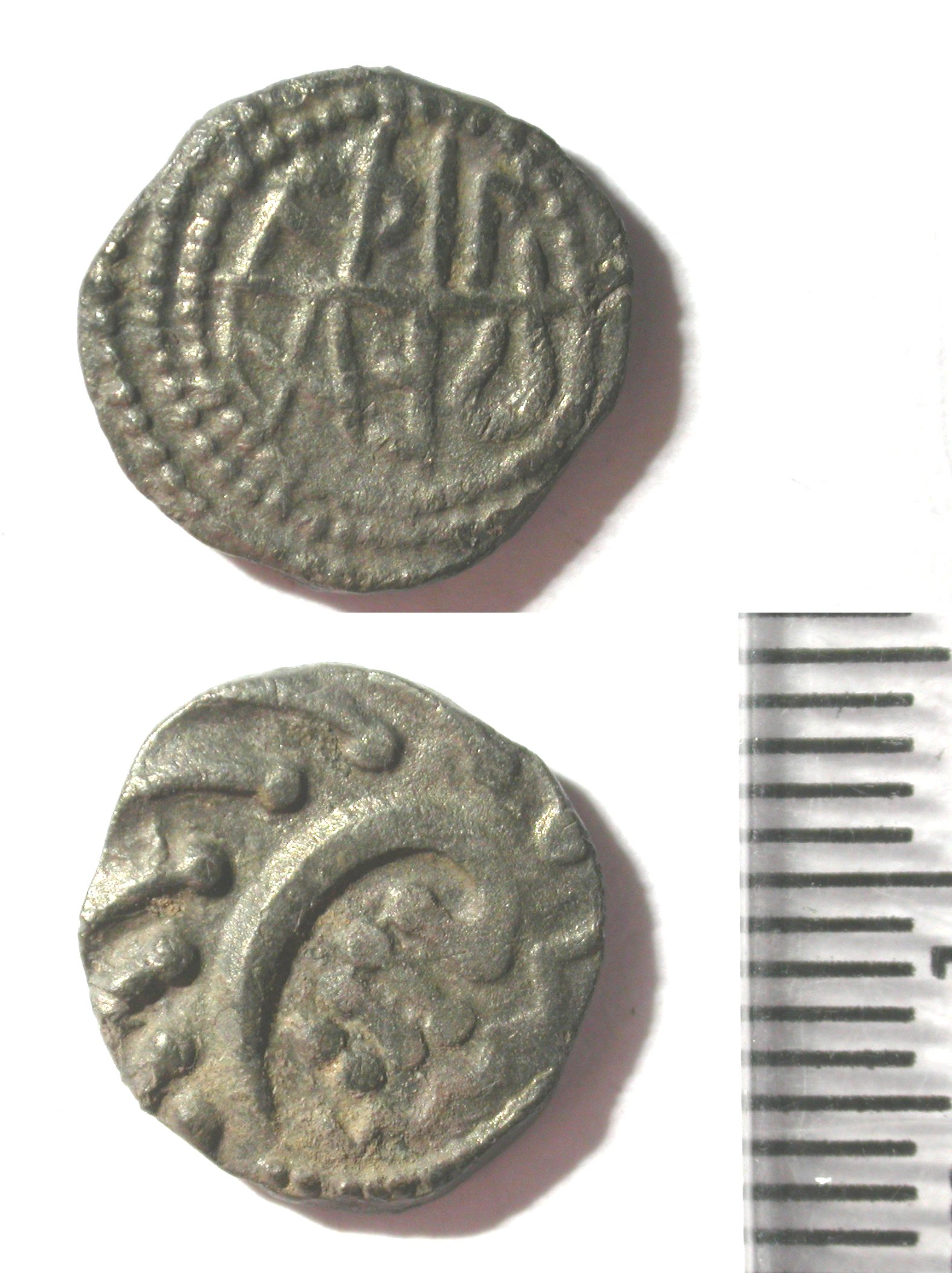 An anonymous early silver penny/sceatta) Type: Series E (runic Æthiliræd) (Type 105) (N 155-156) Obverse description: Bust right. Reverse description: Legend in two lines with triple border of pellets. Reverse inscription: AETHILRAED